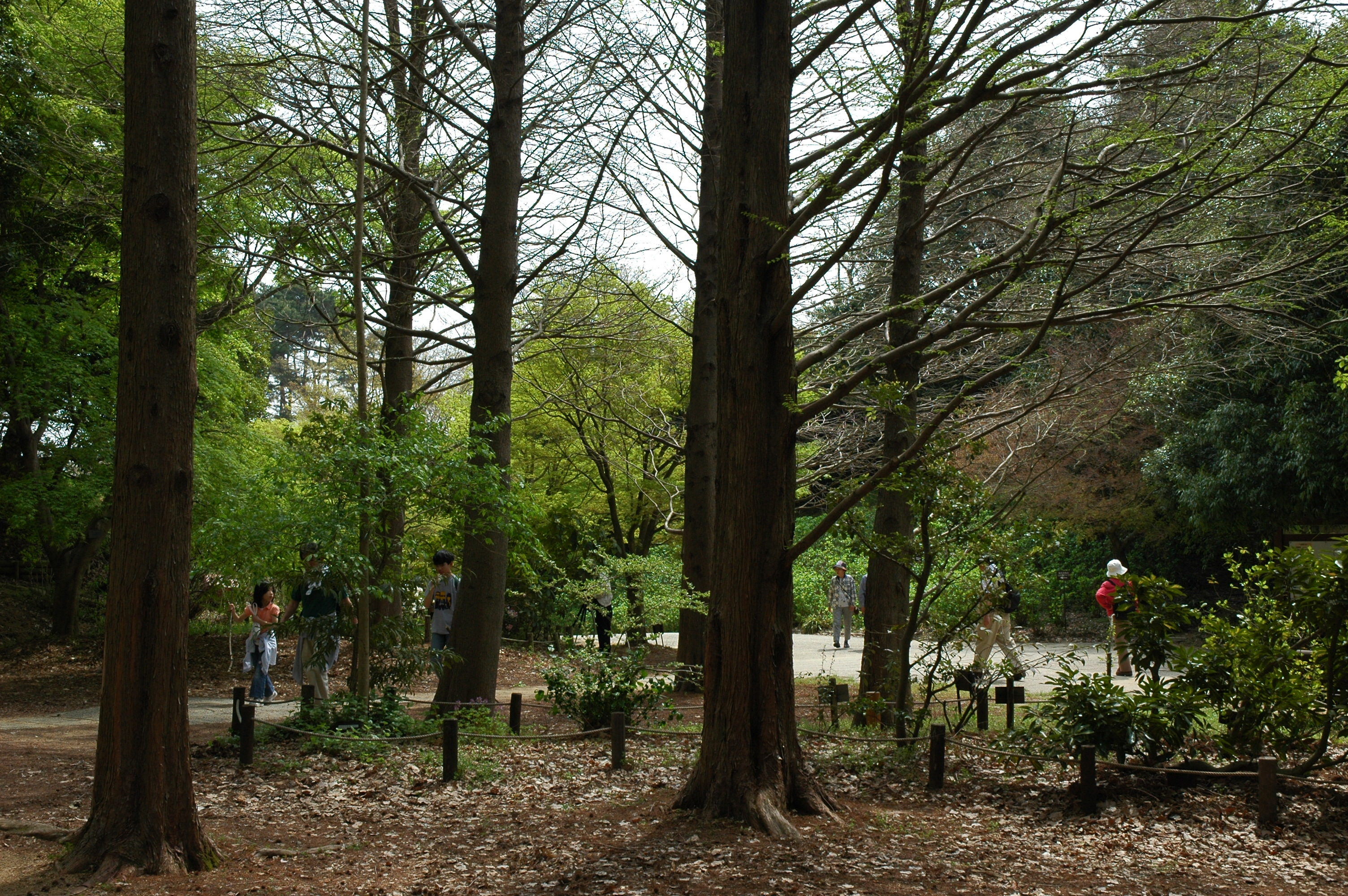 scenery in the vicinity of Kobe Municipal Arboretum entrance